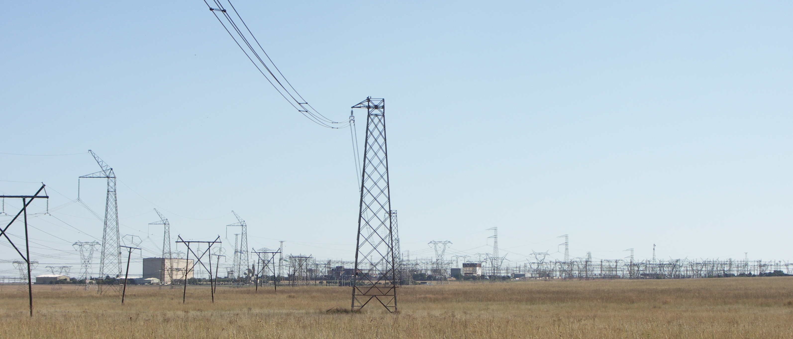 The Apollo HVDC converter station and HVDC and HVAC distribution cables running to it. Photo taken from within Rietvlei Nature Reserve, South Africa. Tall pylons on the left are part of the Cahora Bassa HVDC line.